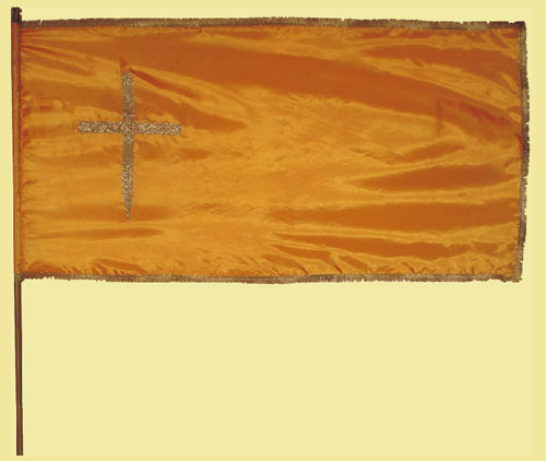 The flag of the Royal House of Hasan Jalalyan, found here [1], on the "Hasan Jalalyans, Charitable, Cultural Foundation of Country Development" website. ru}Флаг Гасан-Джалалов